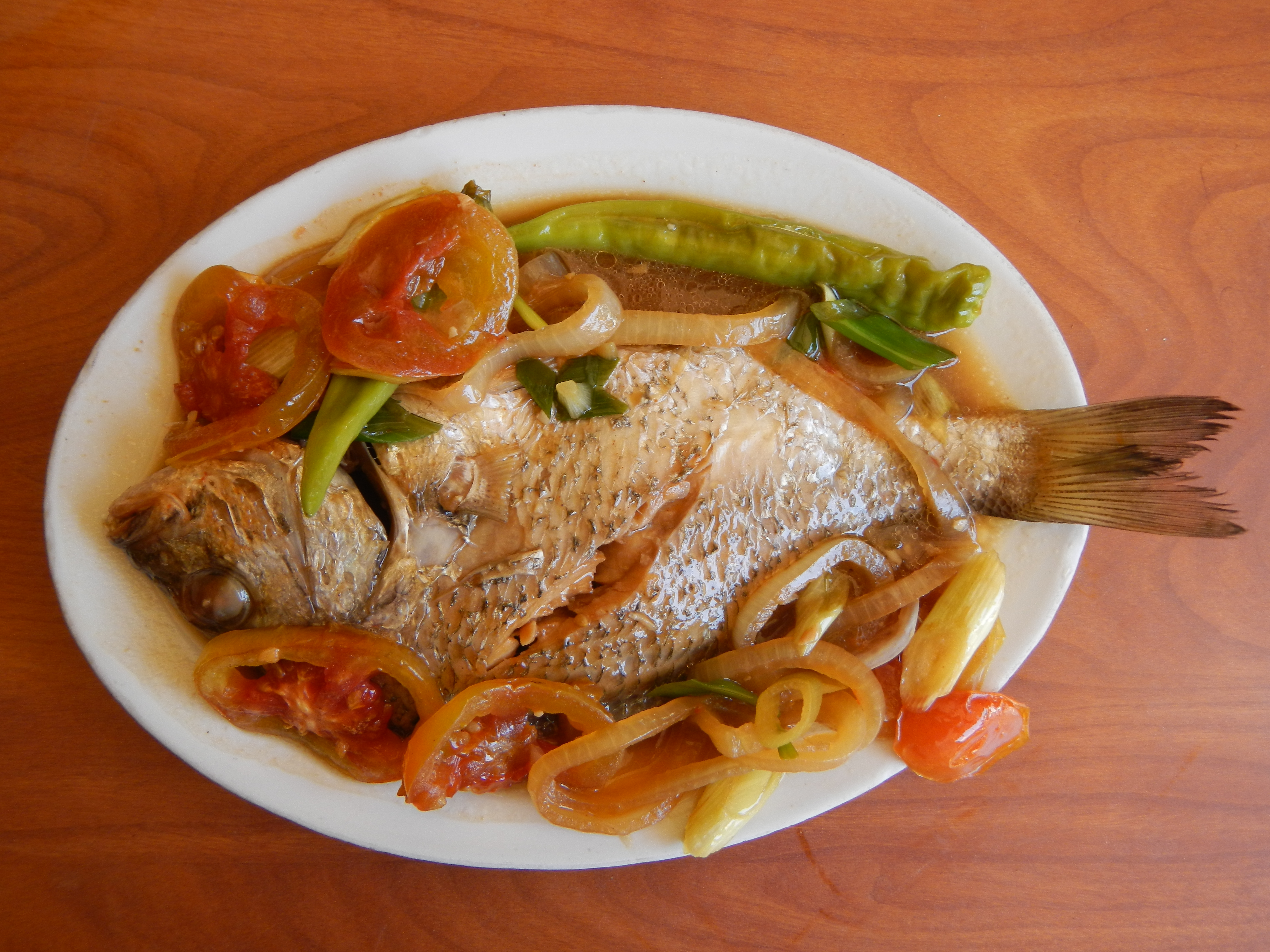 Fish with tomatoes and onion